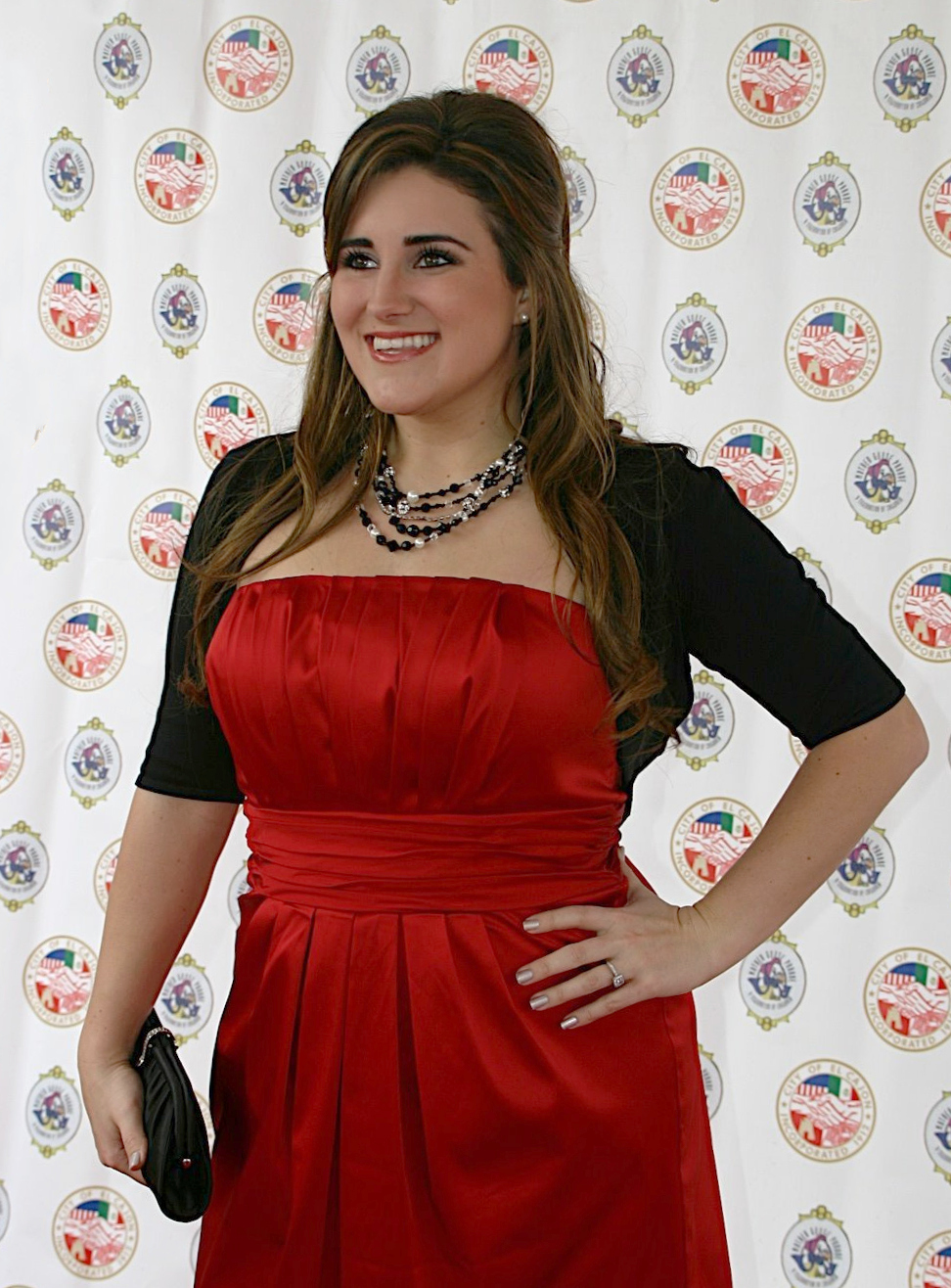 American actress KayCee Stroh was the Grand Marshal at San Diego's 62nd Annual Mother Goose Parade. Mother Goose Parade Assn / Popular Press Media Group (PPMG)